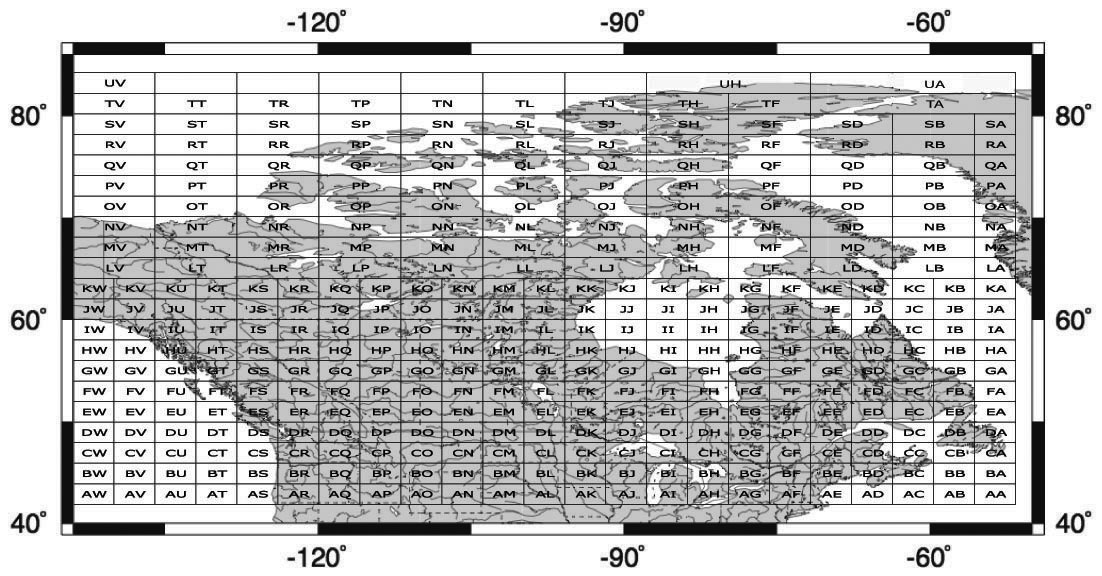 Map of Canada with Borden Grid